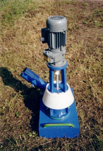 SETUR water turbine